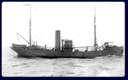 Photograph of Canadian TR series minesweeping trawler TR-9.